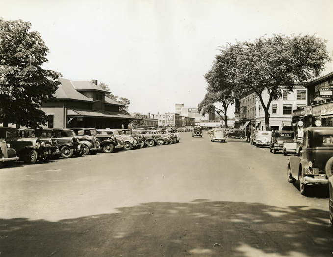 Union Plaza with Lackawanna Depot Location: Summit County: Union Format: 8x10 BW Photographer: Nathaniel Rubel